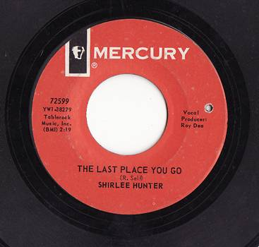 The Last Place You Go by Shirlee Hunter, Mercury [year unknown].